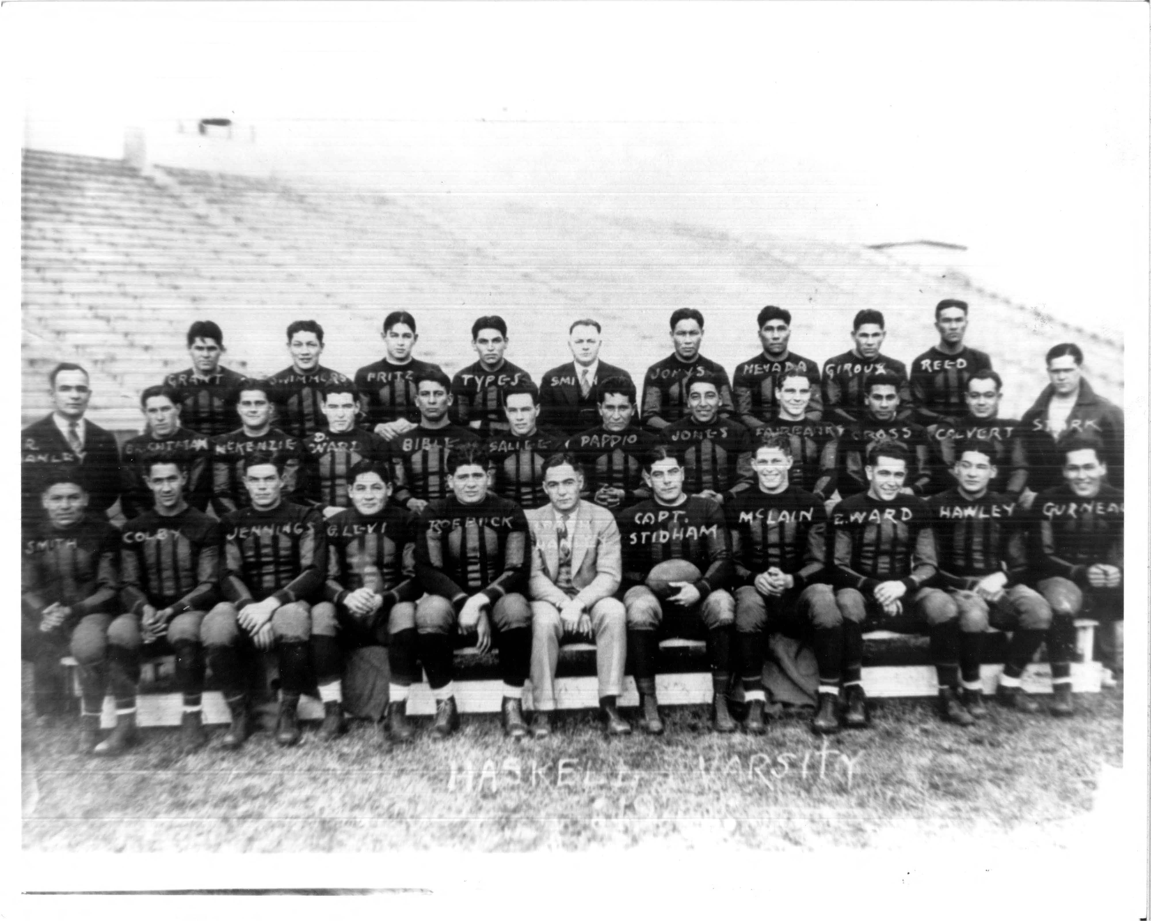 Joe Pappio Haskell Indian Team Football picture 1920-1922 approximately.